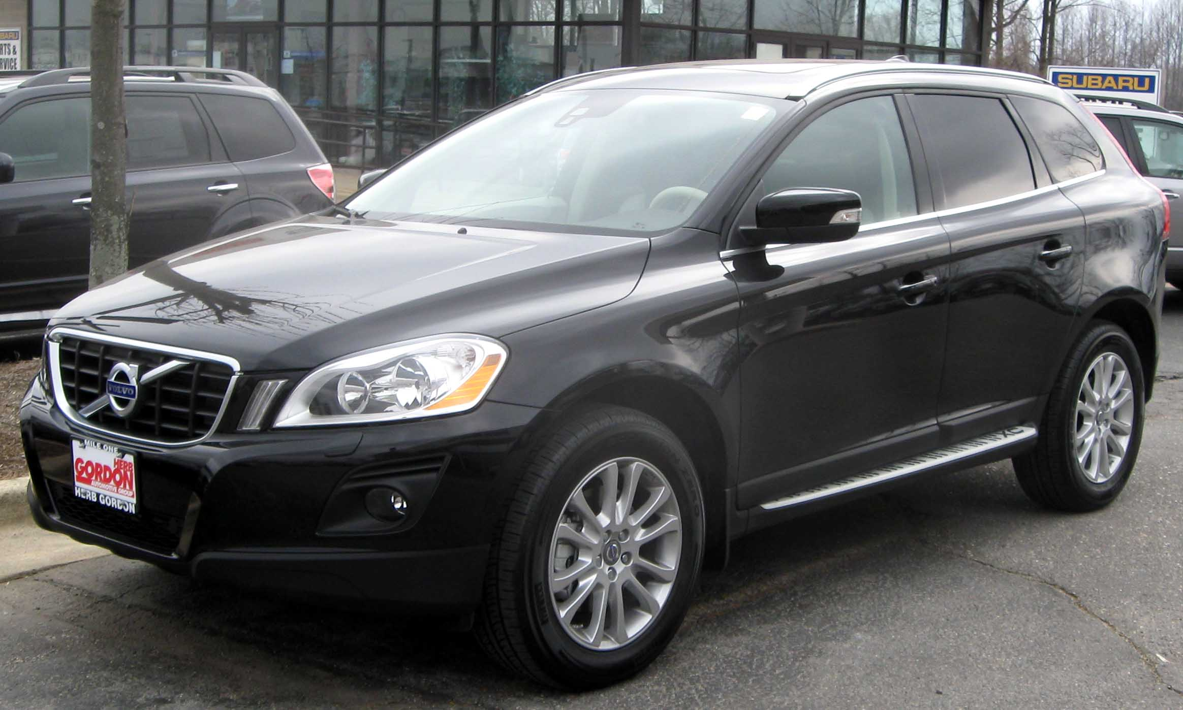 2010 Volvo XC60 photographed in Silver Spring, Maryland, USA.